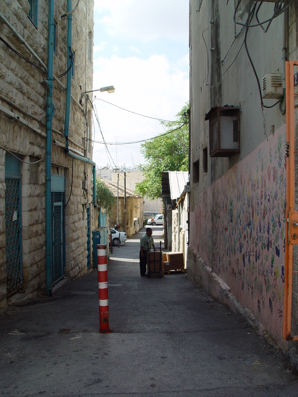 David Avisar street, view from Beit Ya'akov street